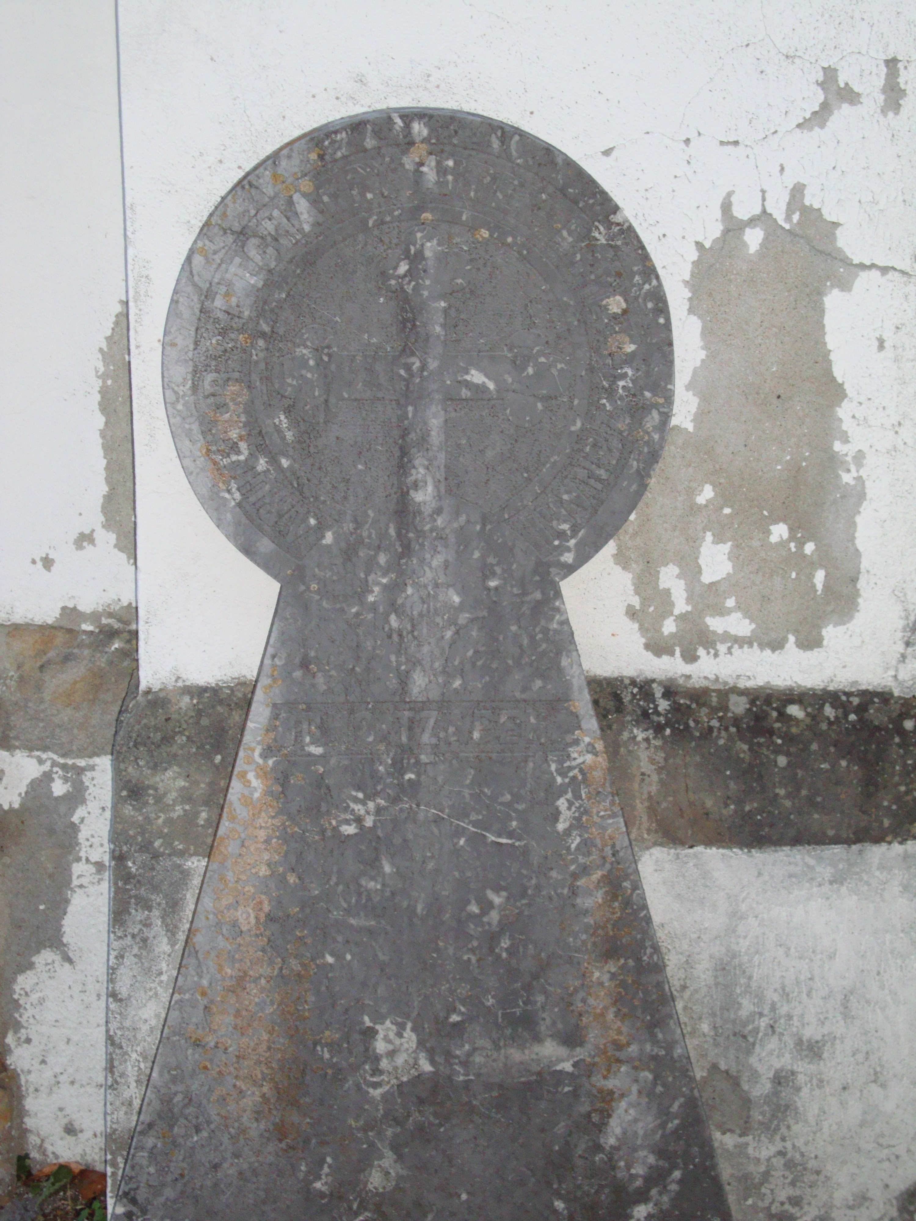 Aroue (Aroue-Ithorots-Olhaïbe, Pyr-Atl,Fr) old discoïdal (basque) stele relocated next to the church entrance